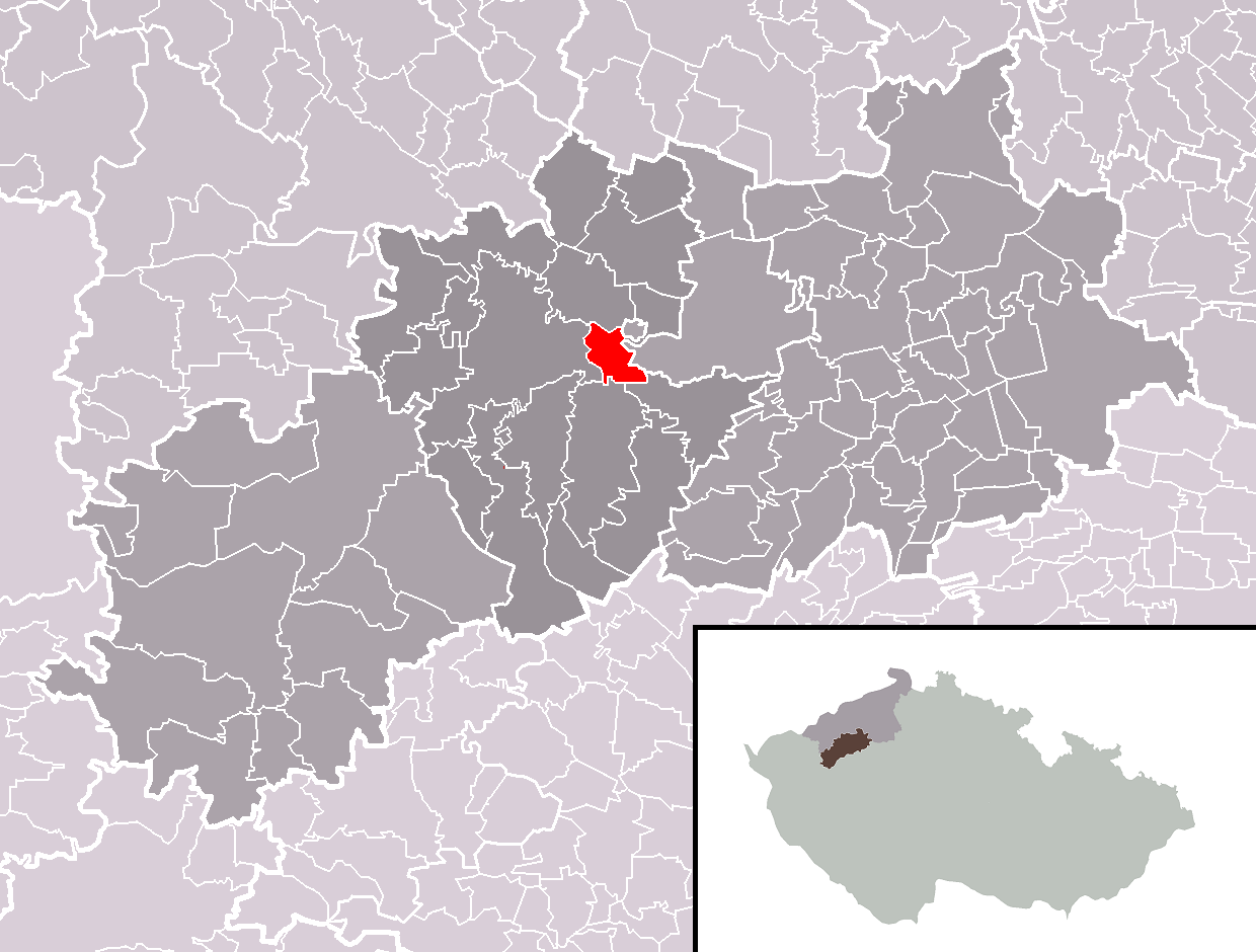 Location of Zálužice municipality within Louny District and administrative area of Žatec as a Municipality with Extended Competence.